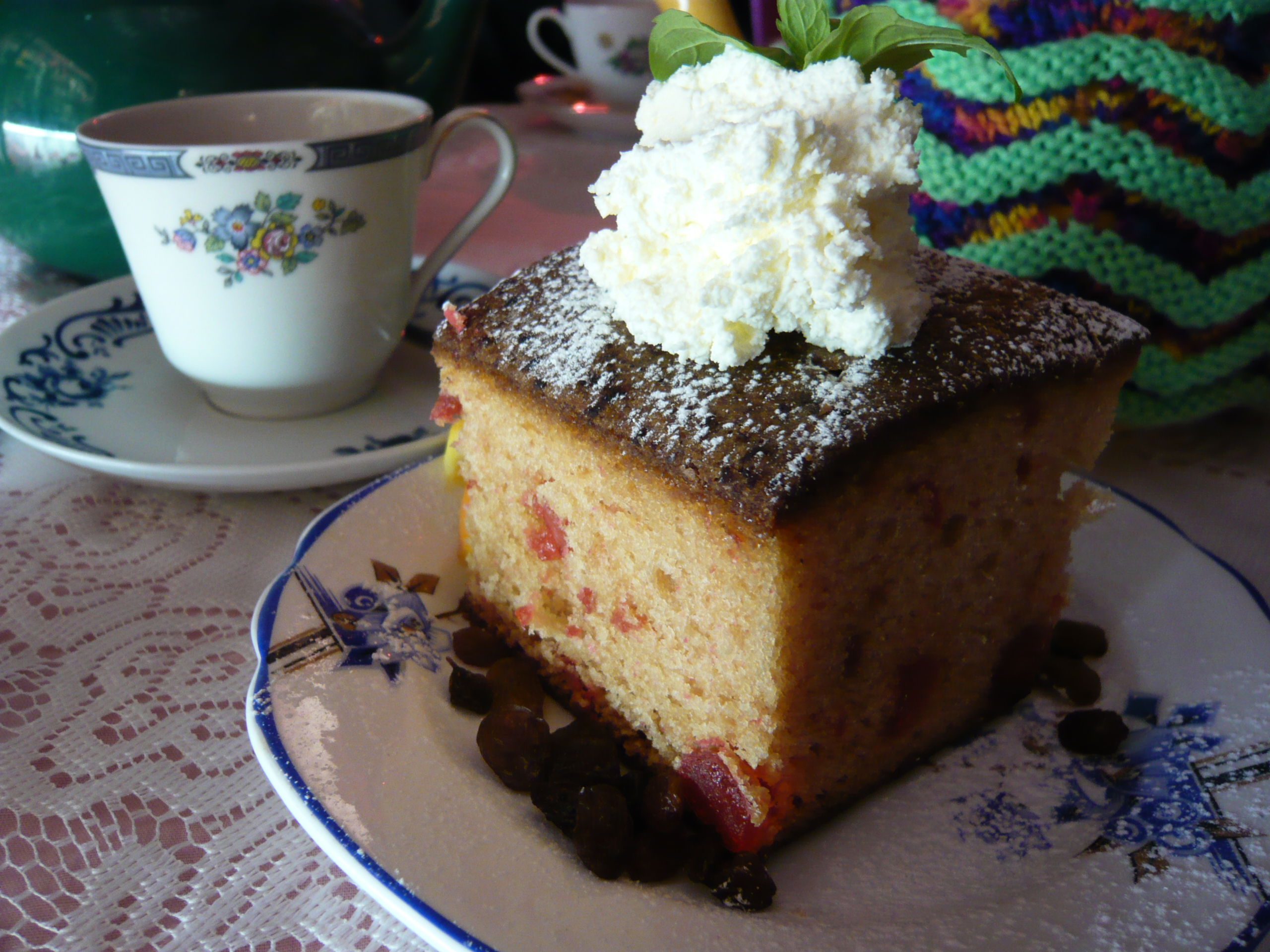 Cherry madeira cake at "The Tea Cosy" in Brighton, UK.